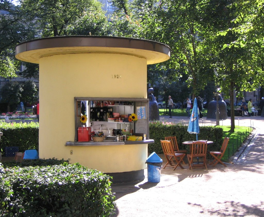 One of several type-kiosks in Helsinki, so called "reel of thread"-kiosk. Architect Gunnar Taucher, 1928